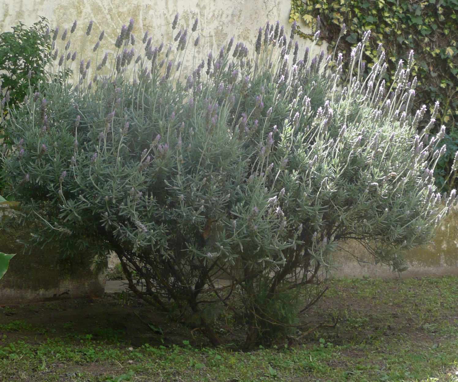 Habit: Subshrub. Perennial plant woody only at the base, on the first 10-30 cm. above ground. Grown at Fortín Olavarría, partido de Rivadavia, provincia de Buenos Aires, Argentina.